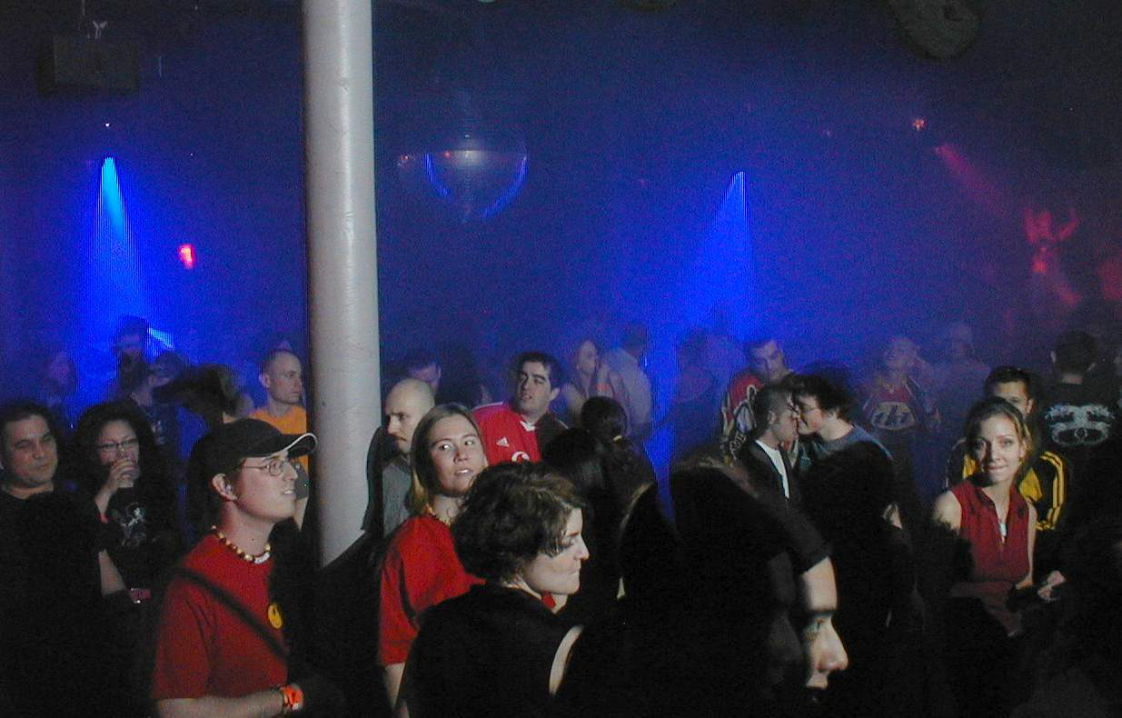 Rave crowd shot from NASA Rewind in NYC 04-03-04.